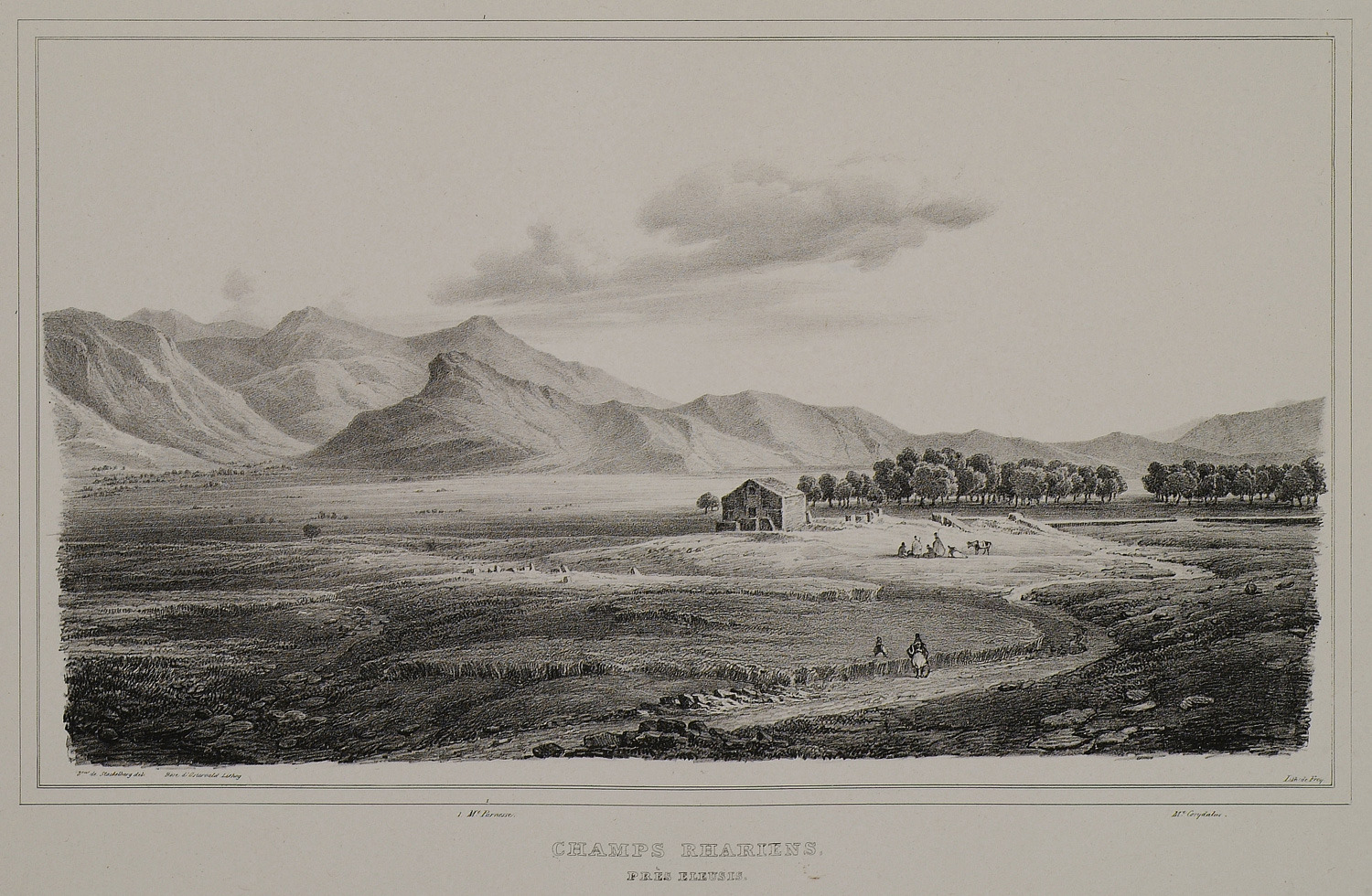 Otto Magnus von Stackelberg. La Grèce. Vues pittoresques et topographiques, Paris, Chez I. F. D'Ostervald, 1834.